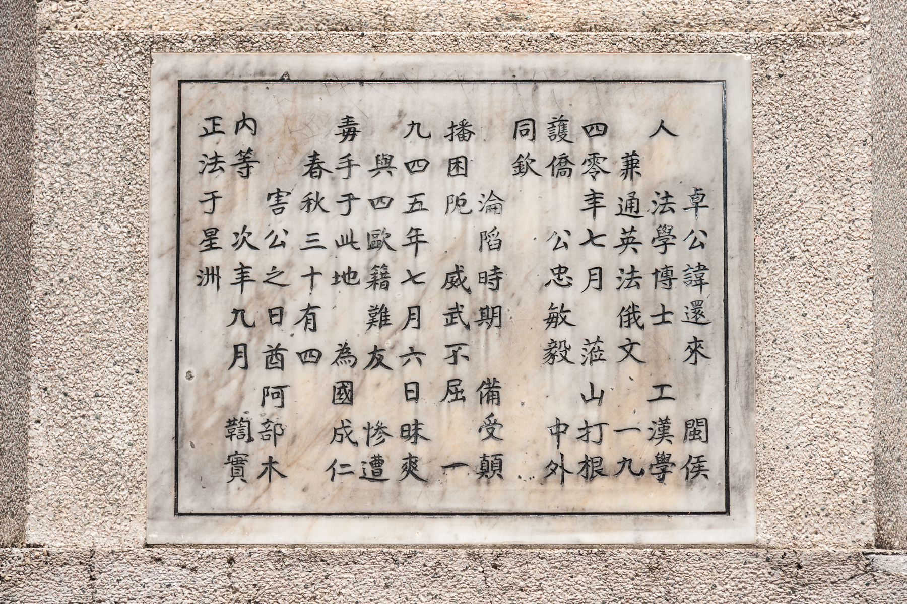 Keningau, Sabah: Cho Huan Lai Memorial